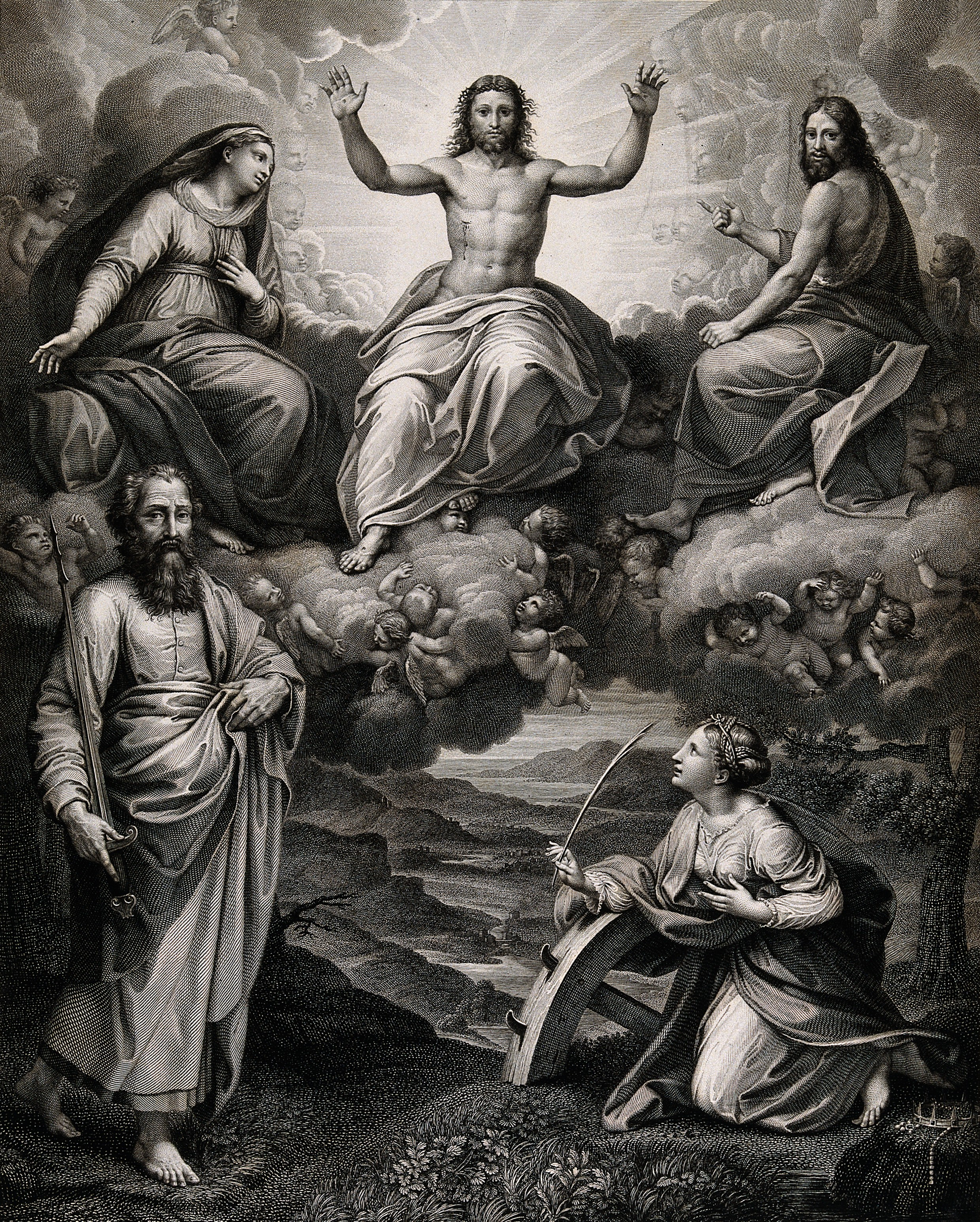 Christ with Saint Paul the Apostle, Saint Mary (the Blessed Virgin), Saint John the Baptist and Saint Catherine of Alexandria. Engraving by T. Richomme after Bouillon after Raphael. Iconographic Collections